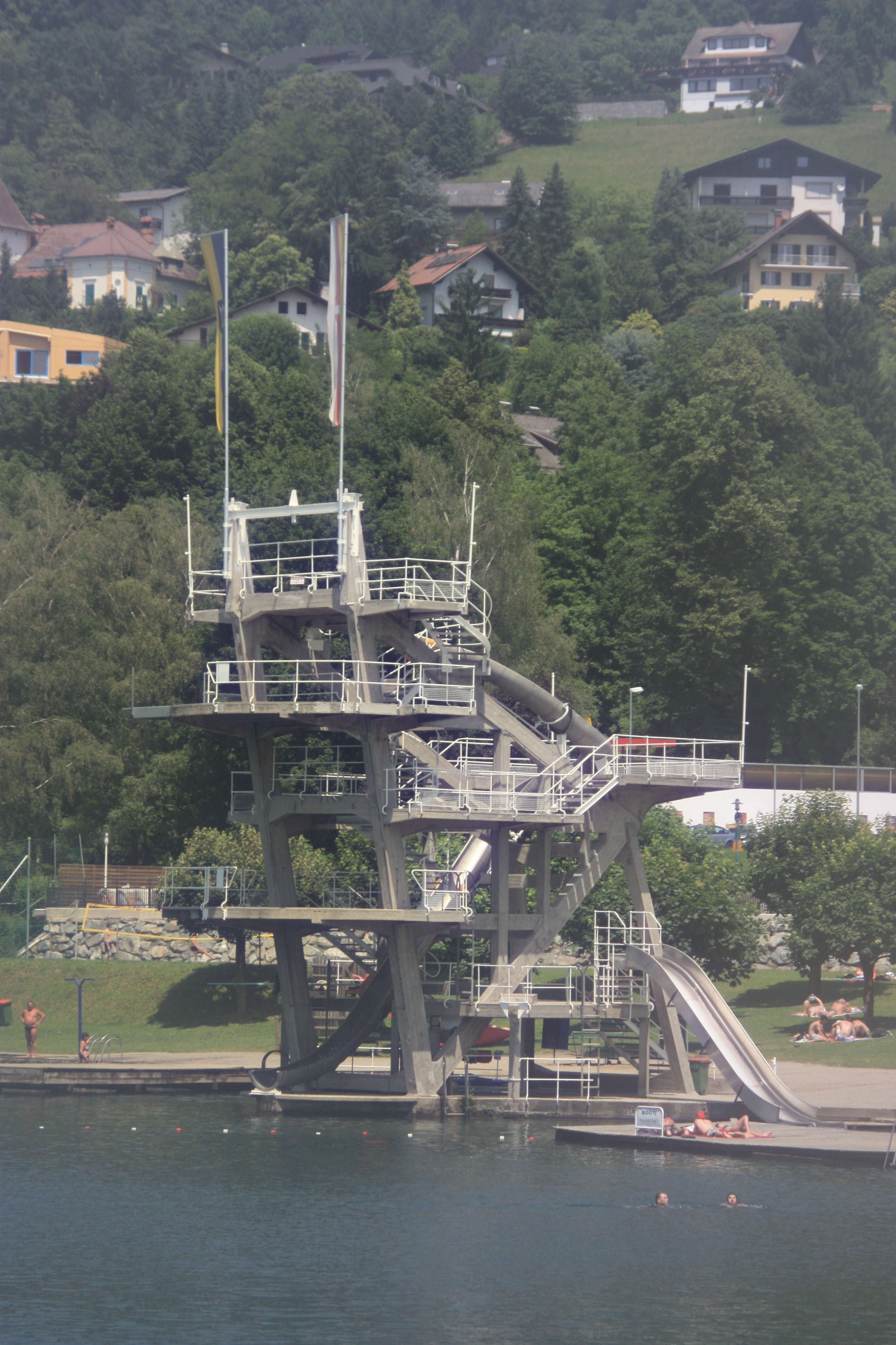 Highboard Locality: Strandbad Millstatt Community:Millstatt